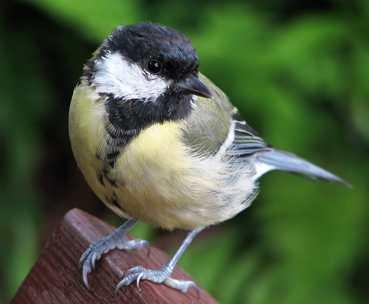 Great TitParus major